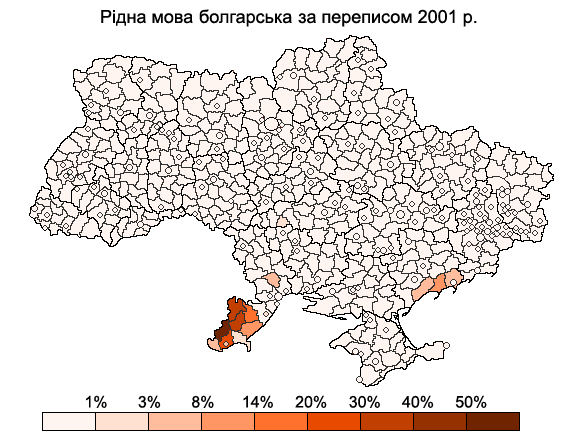 Bulgarian as native language, 2001 ukrainian census